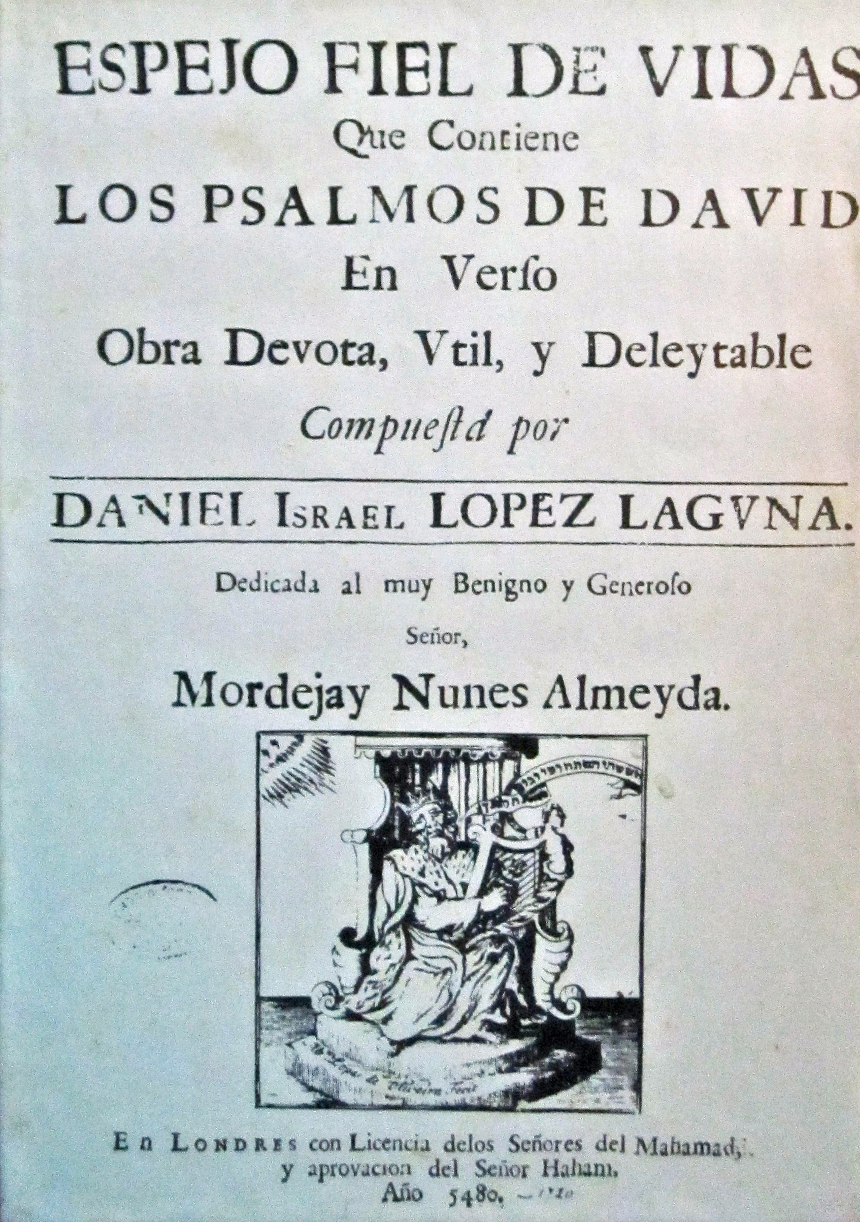 Daniel Israel Lopez Lagvna's Espejo Fiel de Vidas Que Contiene los Psalmos de David en Verso